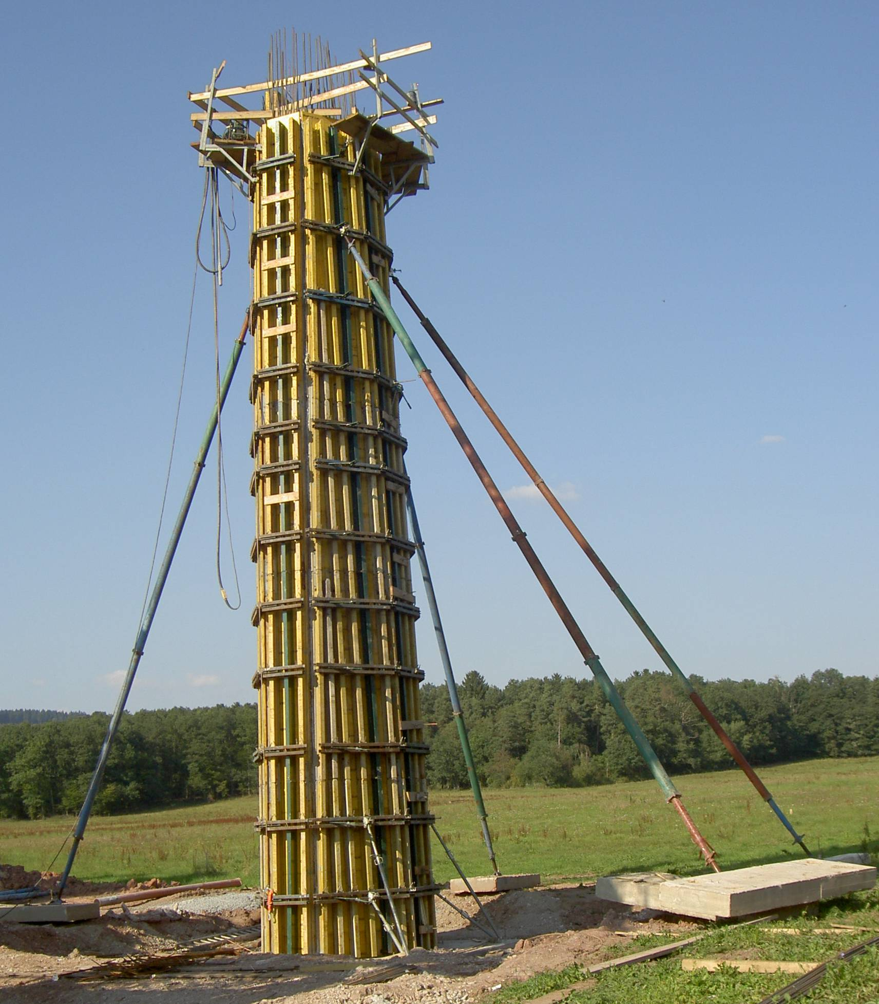 concrete bridge pillar in formwork